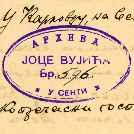 the seal of the archive of Joca Vujić